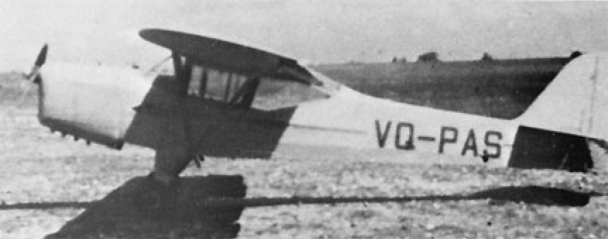 Auster Autocrat used by early IAF